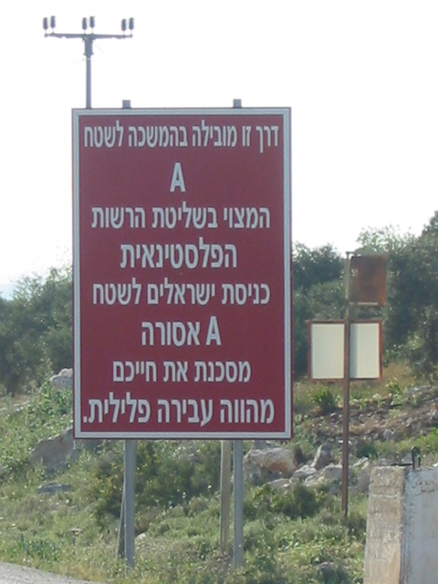 Signpost warning Israelis of forbidden entry to Area A near Hermesh. Literal translation: This way leads to Area 'A' located in control of the Palestinian Authority. Entrance of Israelis into Area 'A' is forbidden, life-endangering, and a criminal offense